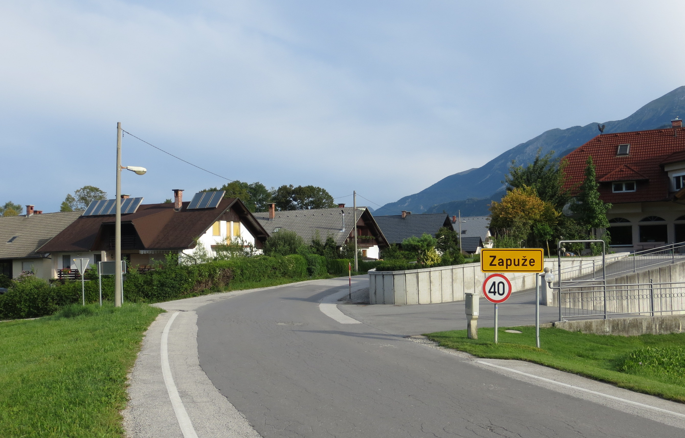 Zapuže, Municipality of Radovljica, Slovenia